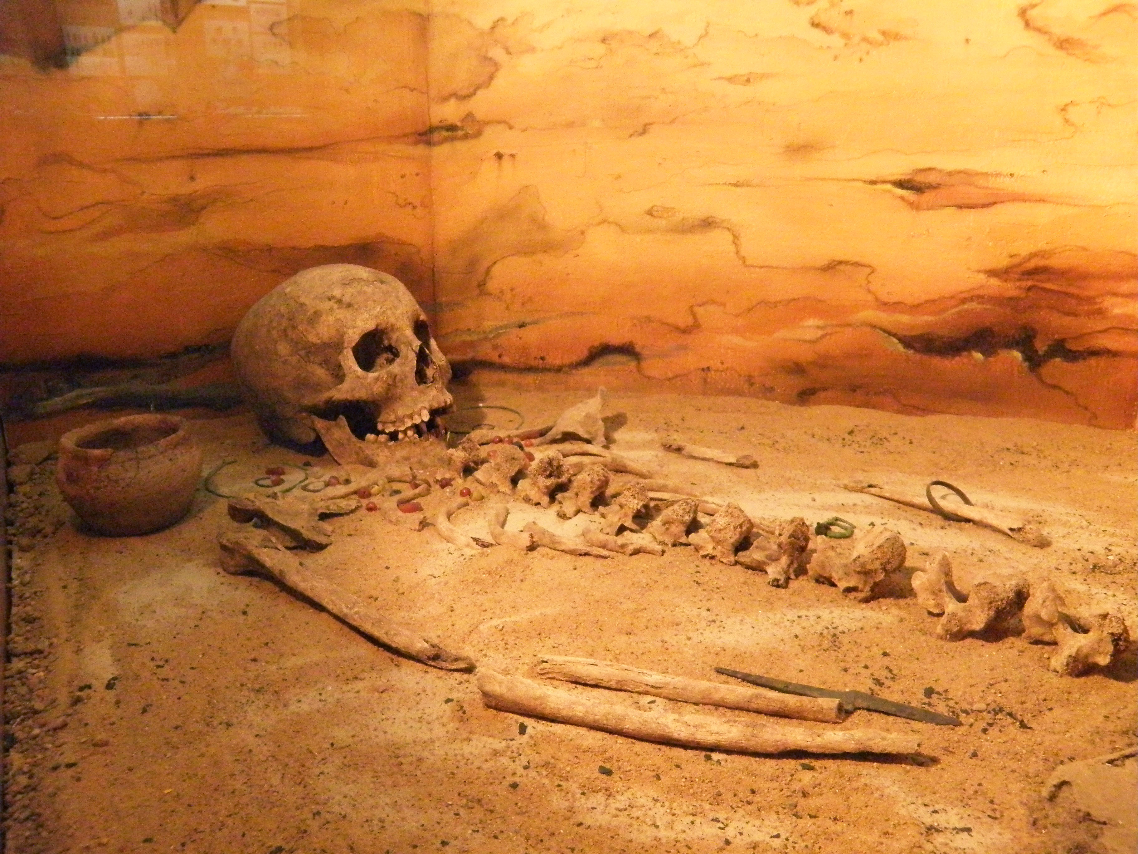 Iron Age female grave from Belarus in the Museum of the Historical Faculty, Belarusian State University, Minsk